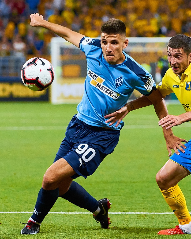 Taras Burlak with FC Krylia Sovetov Samara in a game against FC Rostov.